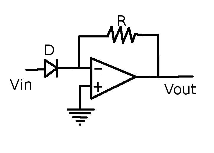 Antilogarithmic operational amplifier